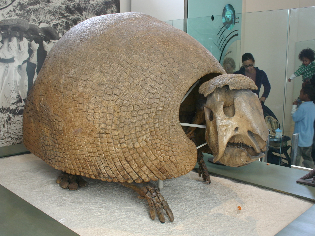 Fossil reconstruction of Panochthus frenzelianus